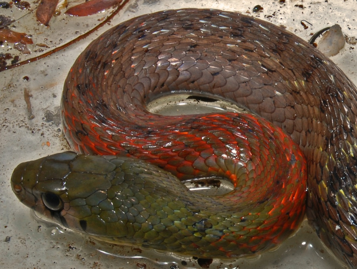 Rhabdophis subminiatus, head close-up. From Darmaga, Bogor, West Java, Indonesia